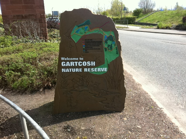 Gartcosh Nature Reserve sign and map - Gartcosh Entrance May 2012